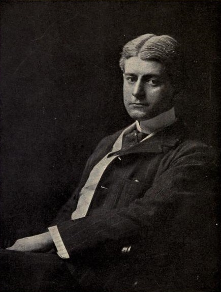 Title Portrait photograph of Frank Norris Contributor Names Genthe, Arnold, 1869-1942, photographer Created / Published between 1896 and 1942; from a negative taken between 1896 and 1902. Subject Headings - Norris, Frank,--1870-1902. Format Headings Lantern slides. Portrait photographs. Notes - Title devised. - Purchase; Genthe Estate; 1942 or 1943. Medium 1 slide : lantern ; 4 x 5 in. or smaller. Call Number/Physical Location LC-G4085- 0447 [P&P]